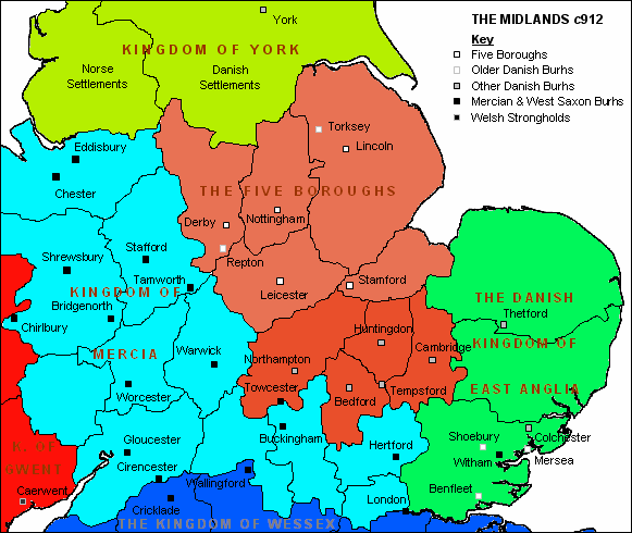 English Midlands - Showing 5 Boroughs in 912AD